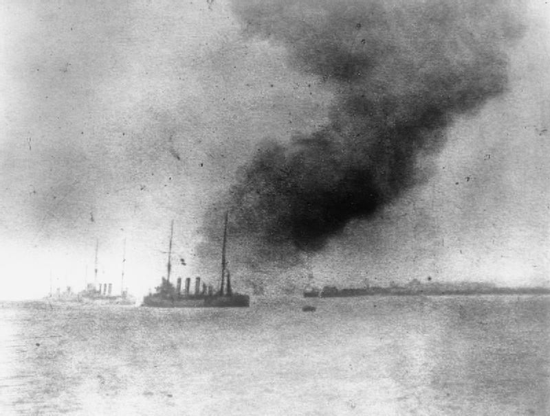 HMS BULWARK blowing up at Sheerness while loading ammunition . Photograph taken from HMS QUEEN.